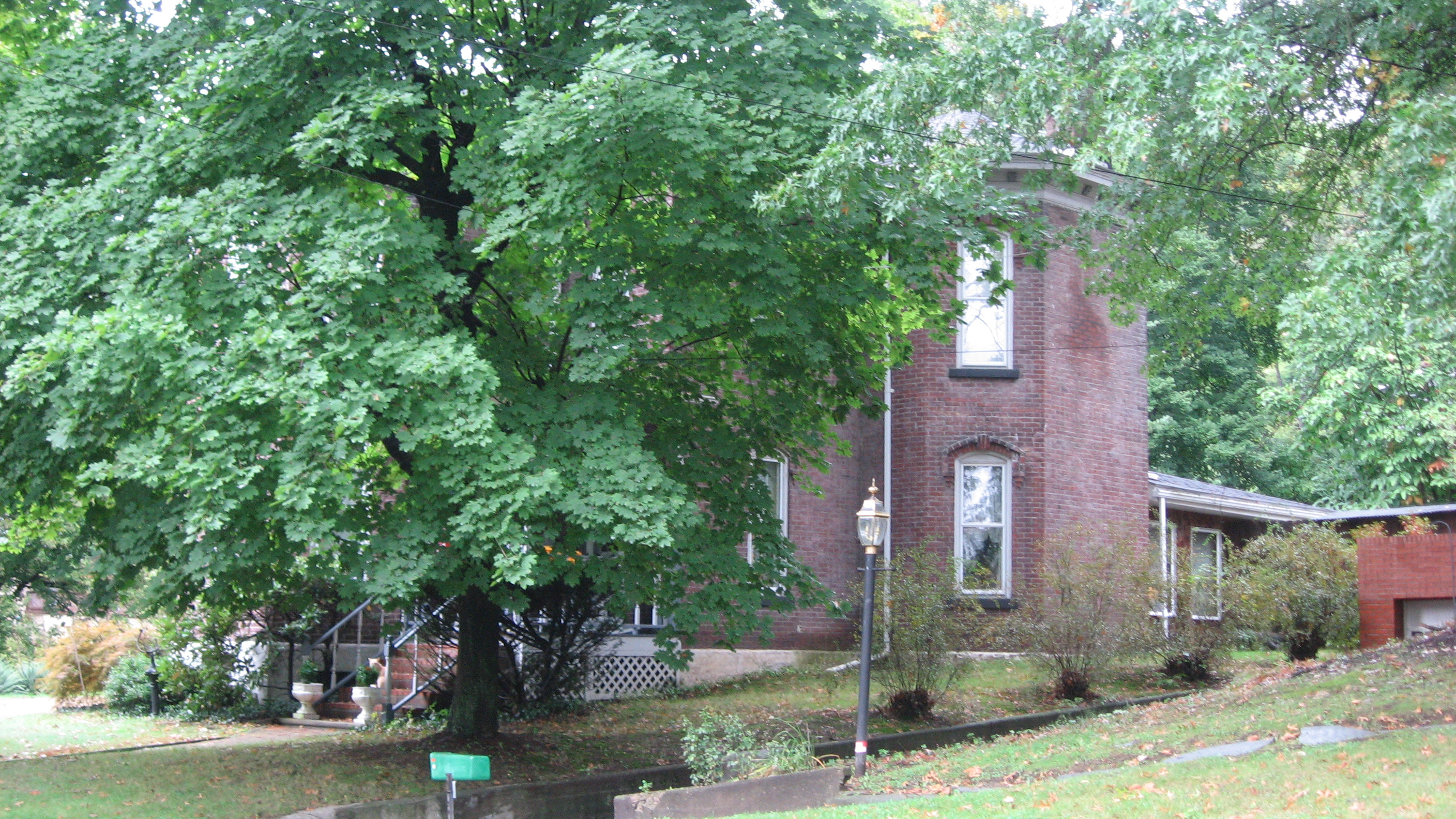 Front and southern side of the Kirker House, located at 1520 Grand Avenue in Wellsburg, West Virginia, United States. Built in 1884, it is listed on the National Register of Historic Places.